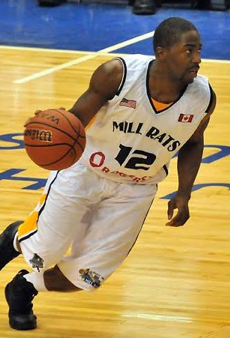 Saint John Mill Rats player Anthony Anderson runs the basketball down the court against the Quebec Kebs.